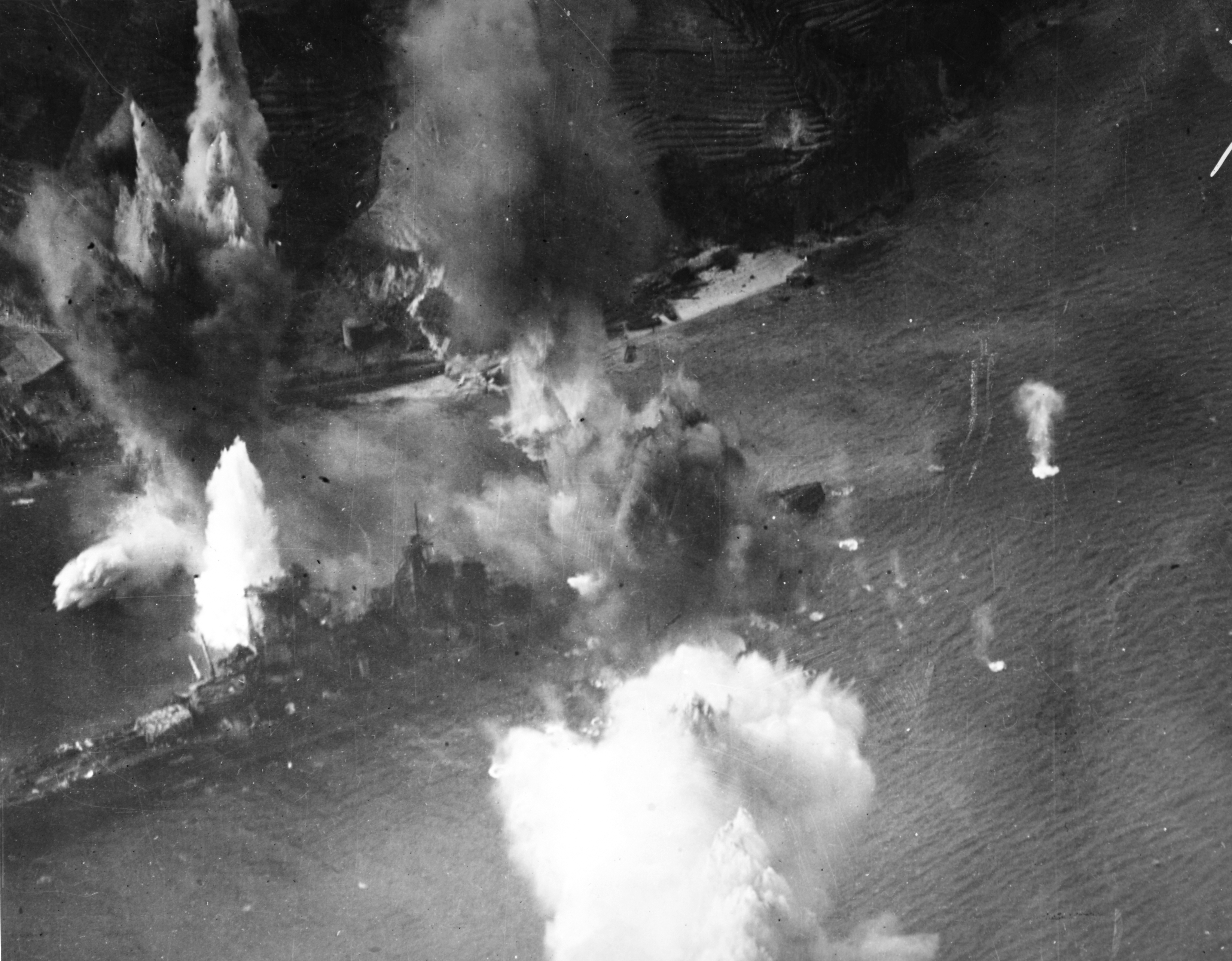 The Japanese battleship Haruna under intense attack by U.S. Navy carrier-based aircraft, near Kure, Japan, on 28 July 1945. She sustained eight bomb hits from Task Force 38's aircraft and sank at her moorings at 16:15 hrs.